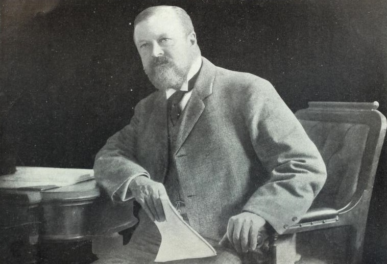 Portrait of Charles Melville Hays